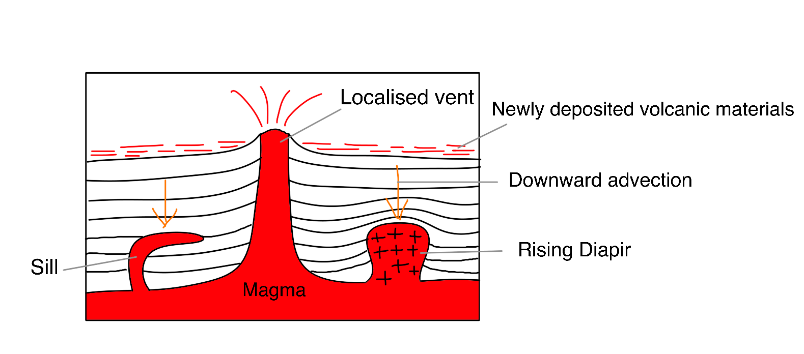 Volcanic resurfacing. Upward advection of melts along vent form layers of volcanic materials at the surface. Downward advection of volcanic layers occurs under the stresses exerted on top and the void created when melts left. In addition, intrusions, e.g. diapir and sill, would occur at the base of the lithosphere.